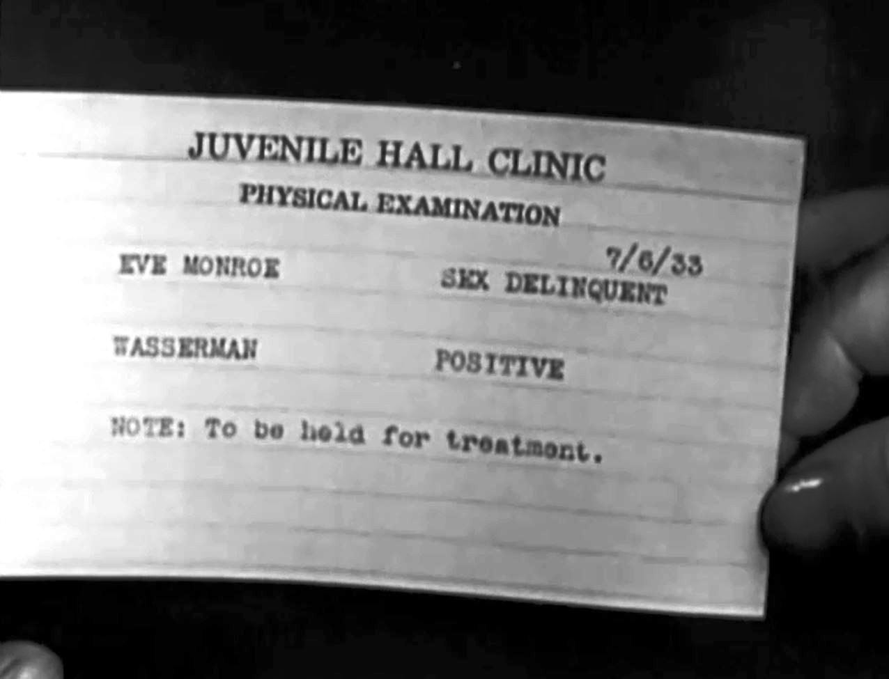 Low resolution screenshot from the American public domain exploitation film The Road to Ruin (1934). After Ann and Eve are taken into custody and given a physical examination, this card is shown indicating that Eve has a positive Wassermann test (misspelled in the film). The film does not explain that this test for antibodies indicates that Eve probably has syphilis. The card is later shown in the film with a "discharged" stamp.